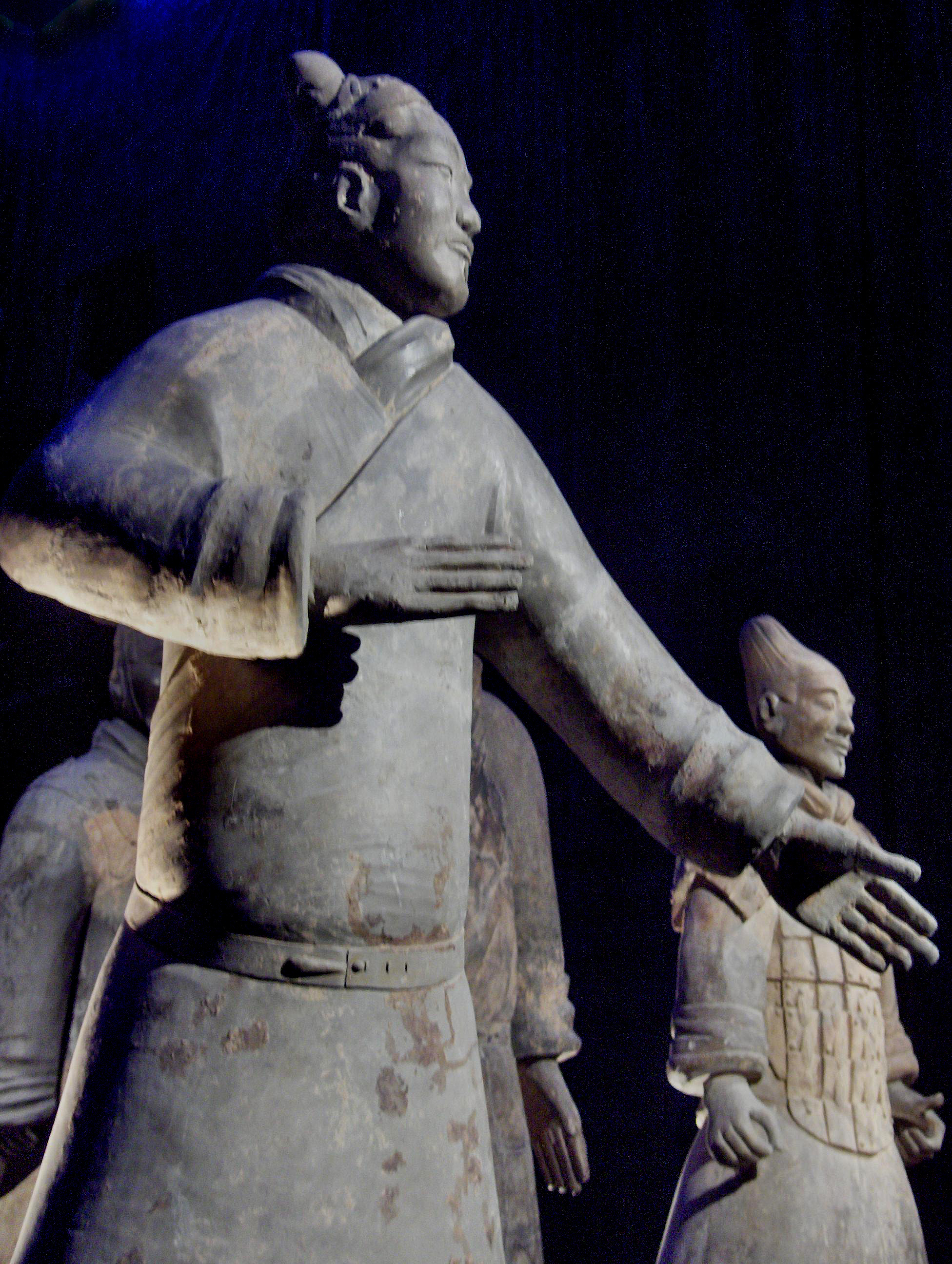 Group of terracotta soldiers; unarmed soldier with hair in a bun, from Lintong pit 2, Qin-dynasty